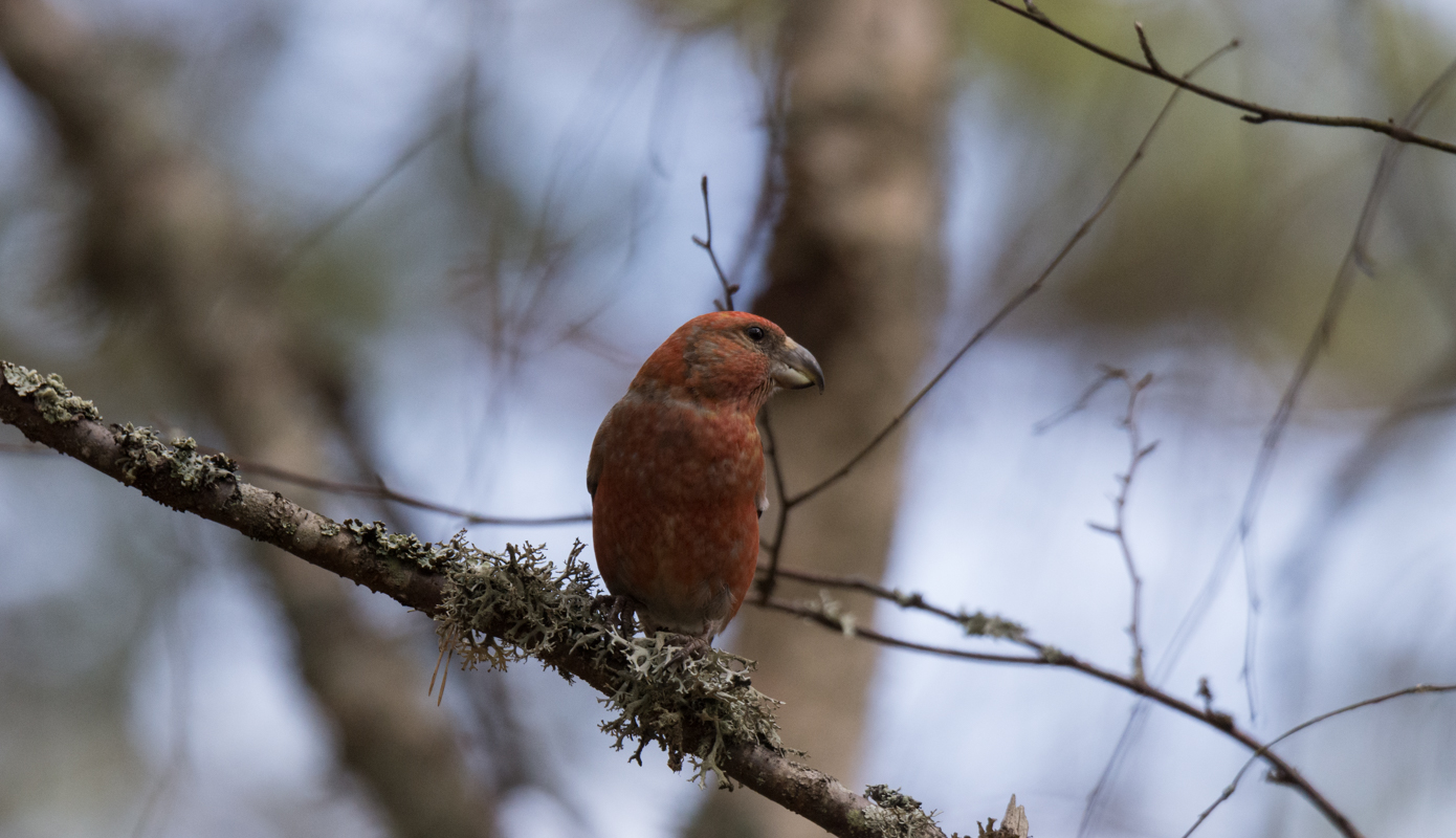 Parrot crossbill sitting on a branch